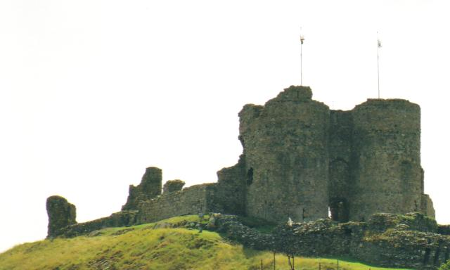 Criccieth Castle.